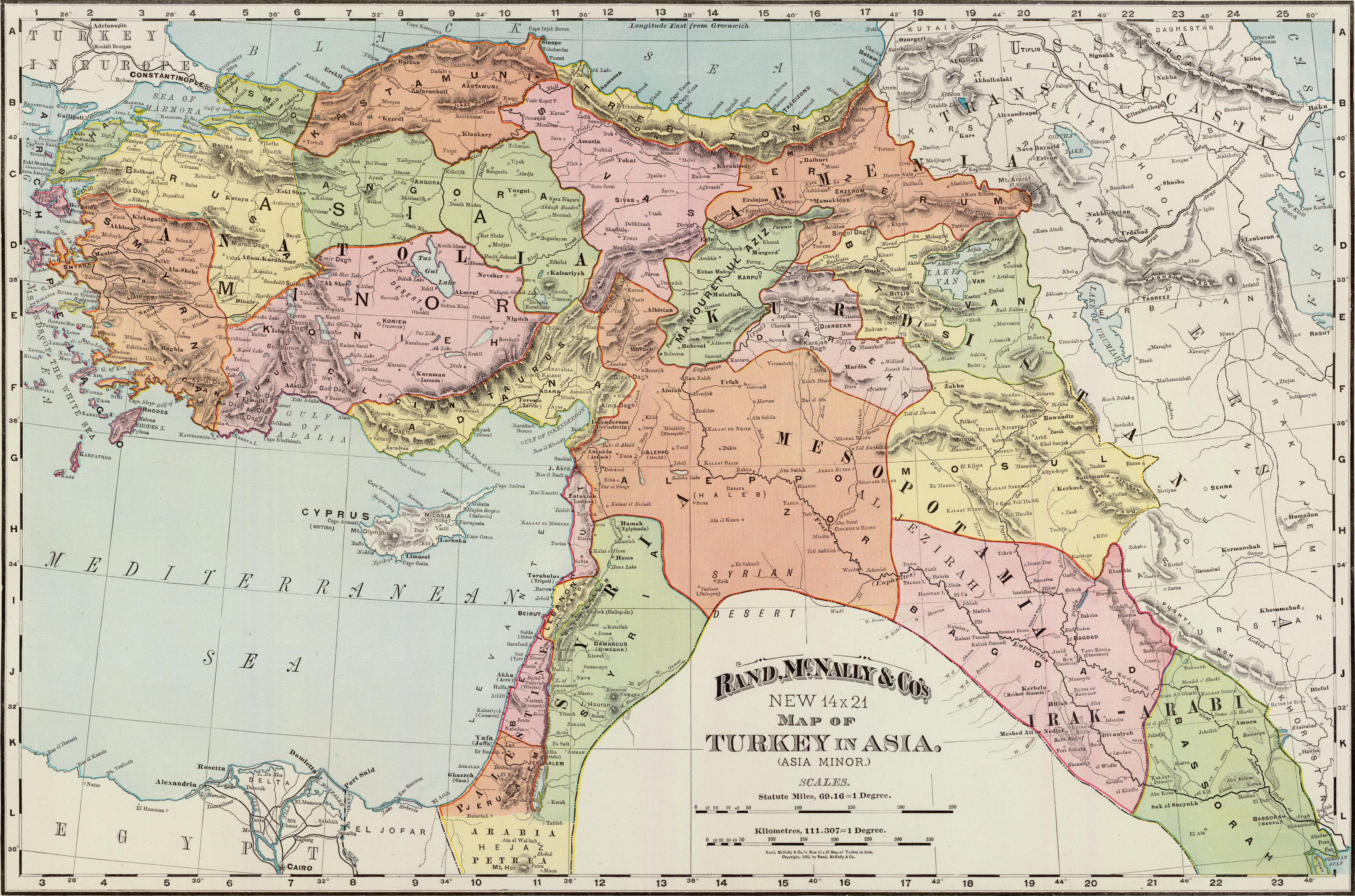 Author: Rand McNally and Company Date: 1897 Short Title: Turkey in Asia. Publisher: Rand McNally Chicago Type: Atlas Map Obj Height cm: 32 Obj Width cm: 50 Scale 1: 7,603,200 Note: Col. map. Relief shown by hachures. "Rand McNally & Company's" in margin. Country: Syria; Turkey Region: Middle East Full Title: Rand, McNally & Co.'s new 14 x 21 map of Turkey in Asia, Asia Minor. Copyright 1895, by Rand, McNally & Co. (Chicago, 1897) List No: 3565.029 Page No: 110 Series No: 34 Publication Author: Rand McNally and Company Pub Date: 1897 Pub Title: Rand, McNally & Co.'s indexed atlas of the world containing large scale maps of every country and civil division upon the face of the globe, together with historical, descriptive, and statistical matter relative to each ... Accompanied by a new and original compilation forming a ready reference index ... Engraved, printed and published by Rand, McNally & Company, Chicago and New York, U.S.A., 1897. (on verso) Copyright, 1894, by Rand, McNally & Co., Chicago ... (complete in two volumes) Pub Reference: cf Phillips, 1026 (1898 ed.) Pub Note: This was Rand McNally's highwater mark for its 19th century atlases. No obvious changes from the 1896 edition. Similar to the 1897 Standard Atlas of the World. Vol 1 - Foreign Countries, Vol 2 - United States. Map in full printed color. Atlas is bound in green cloth covers with "The Rand-McNally indexed atlas of the world . Foreign countries" and " ... United States" stamped in gilt on Volumes 1 and 2, respectively. Pub List No: 3565.000 Pub Type: World Atlas Pub Maps: 125 Pub Height cm: 57 Pub Width cm: 41